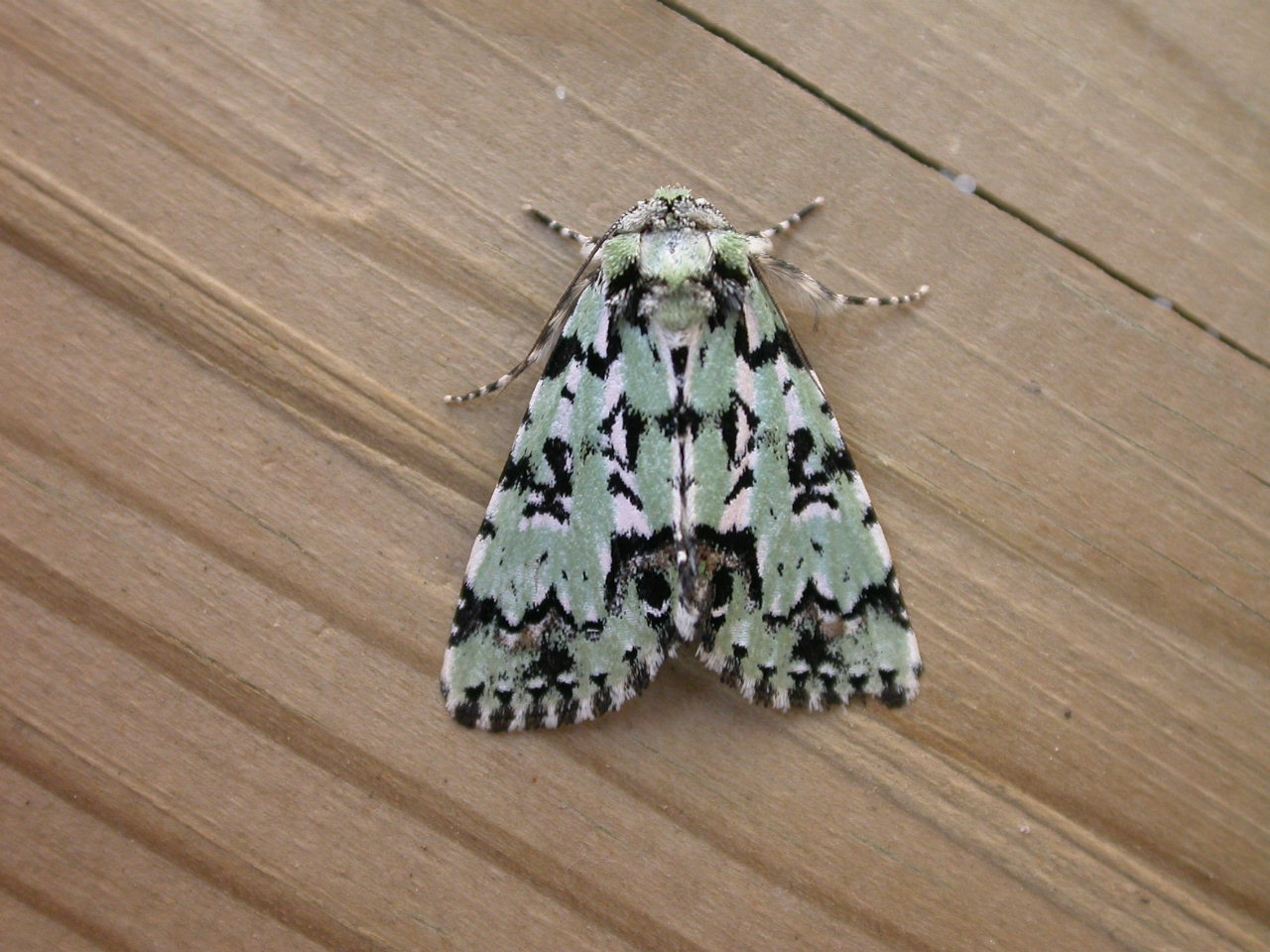 Moma alpium, Gastes, Landes, SW France, 30 June/1 July 2003